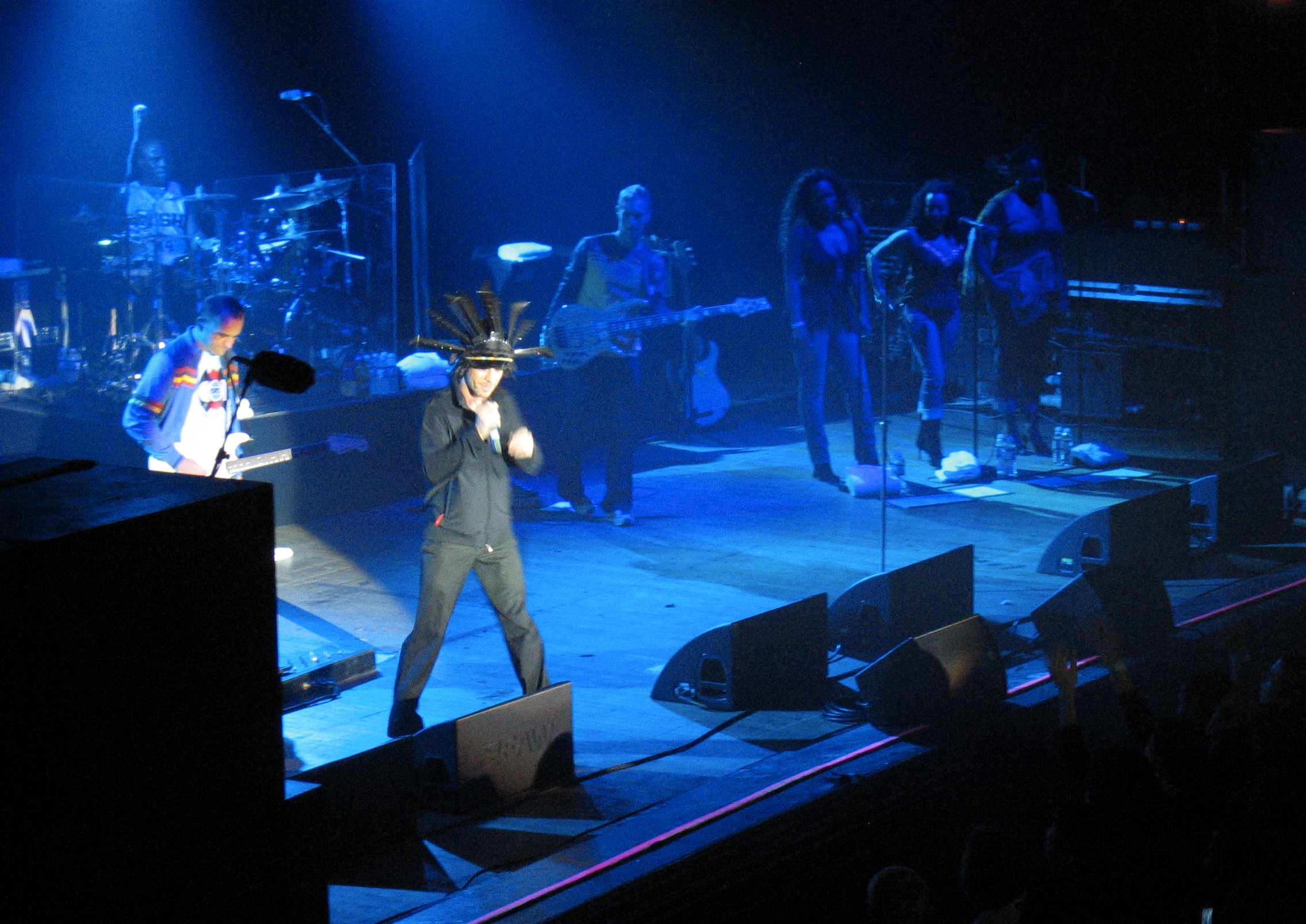 Jamiroquai performing at the Congress Theater in Chicago on October 30, 2005